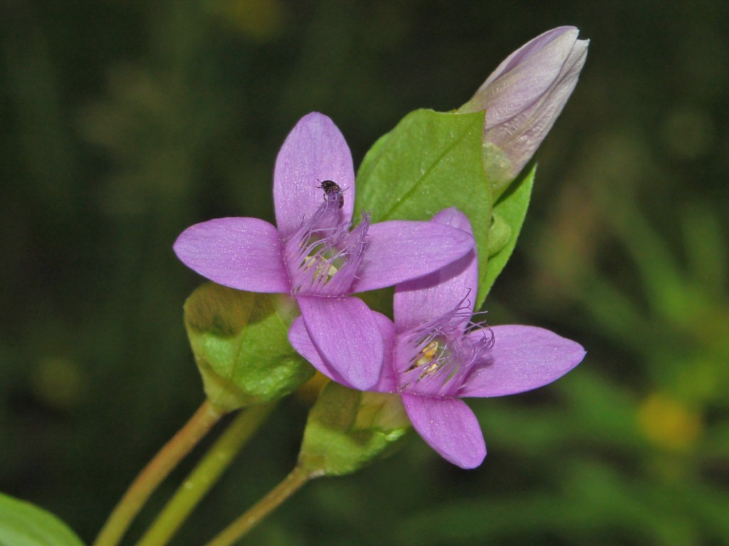 Gentianella campestris - Valle Argentera, Torino, Italy